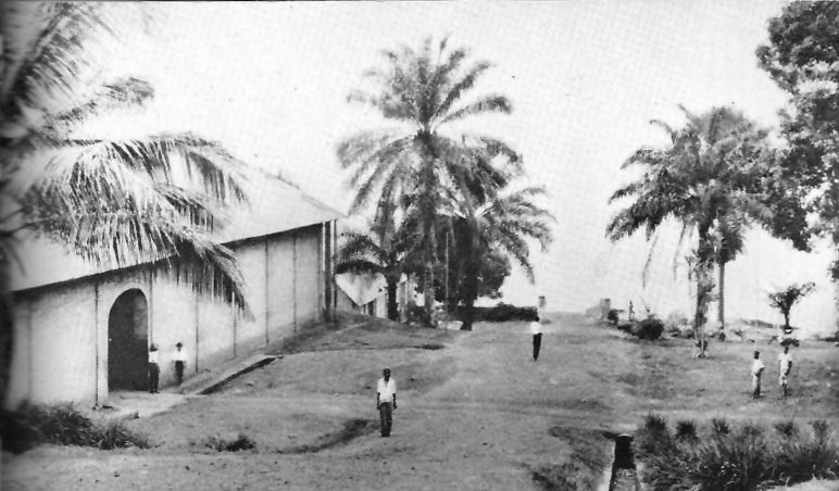 Landing place for river traffic at the Lukolela plantation